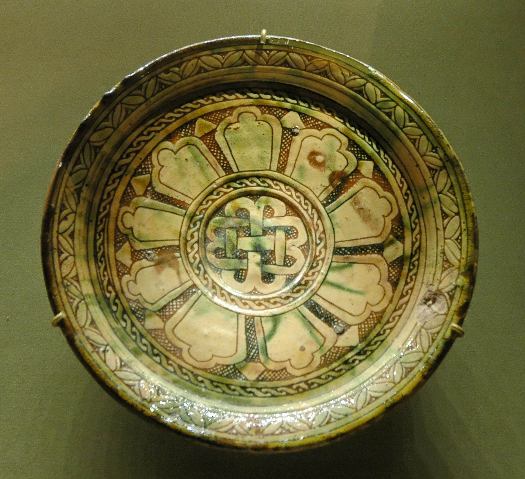 Plate with rose design. Earthenware, slip decoration, engraved and champlevé decoration, transparent glaze, underglaze painted, color splashes. Found at the site of Shahr-i Ghulghula at Bamiyan in Afghanistan, 12-13th century.